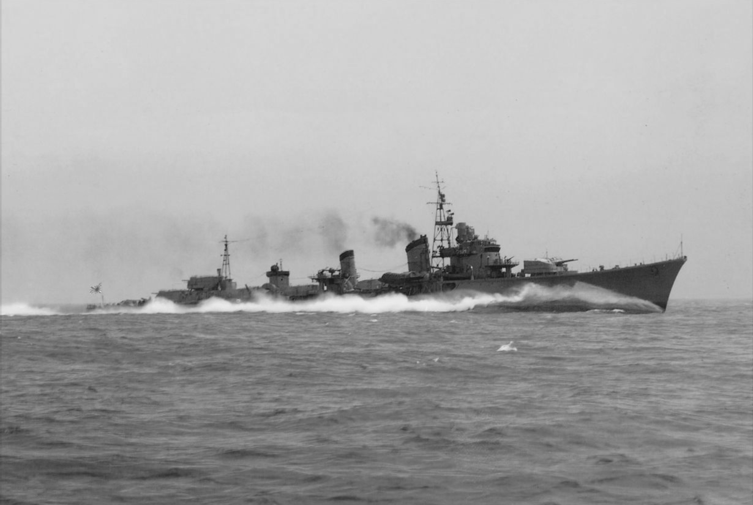 Imperial Japanese Navy Destroyer Shimakaze. This pre-1945 image is believed to be copyright-free, as it is a Japanese photograph older than 50 years. If copyright exists in this image, use here is asserted to be fair use.